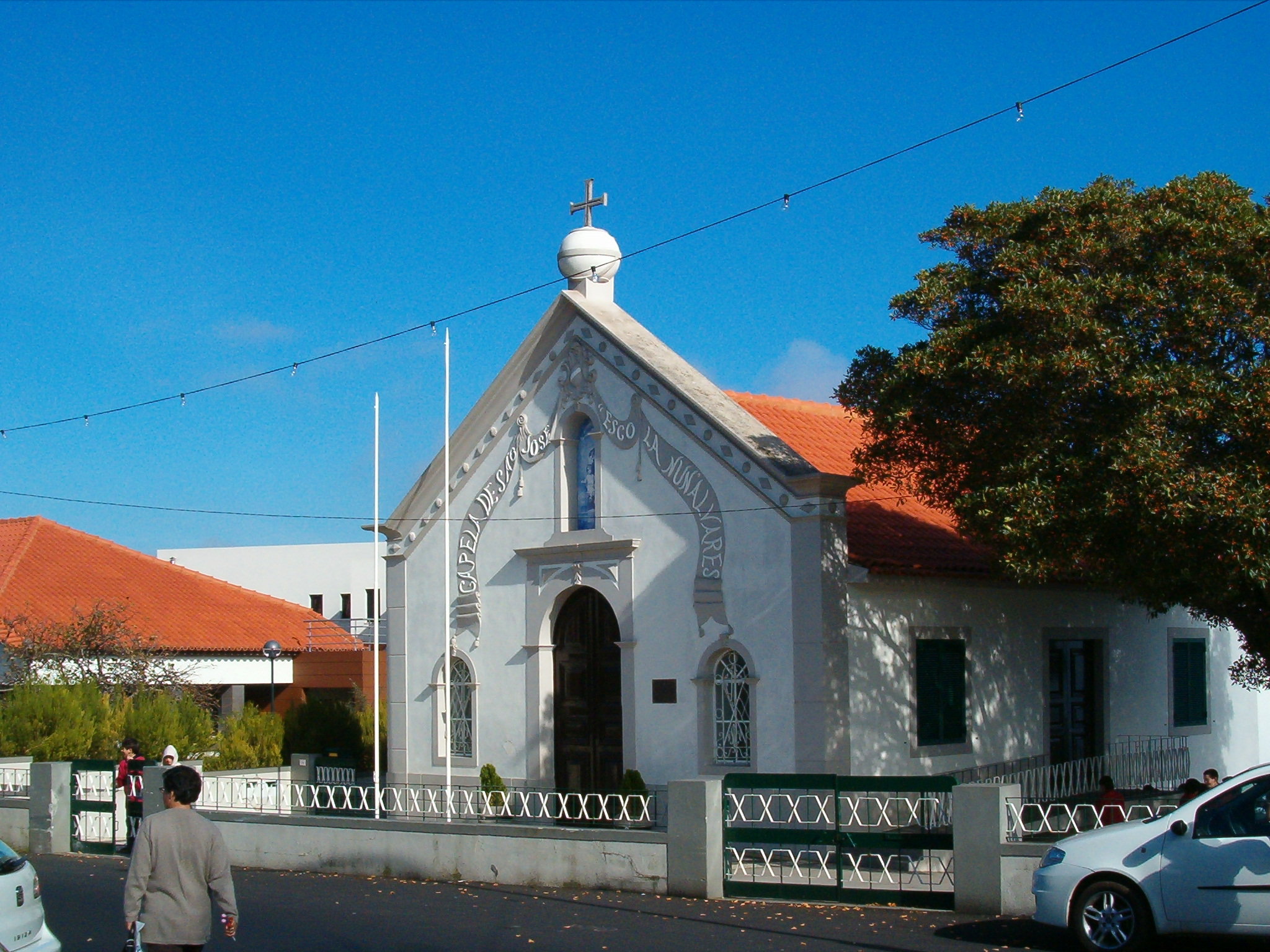 Capela de S. José in Camacha, Madeira